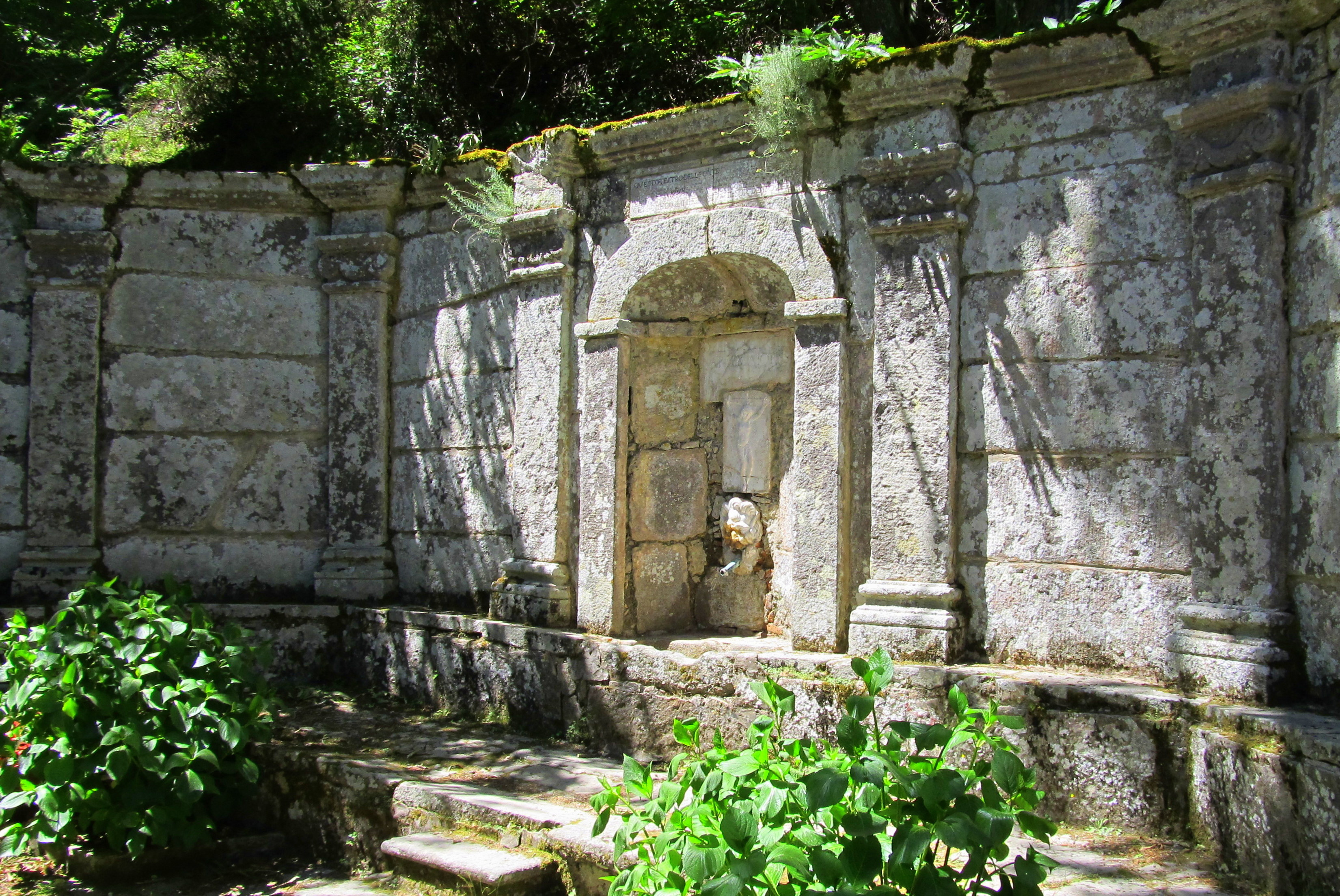 Elba island